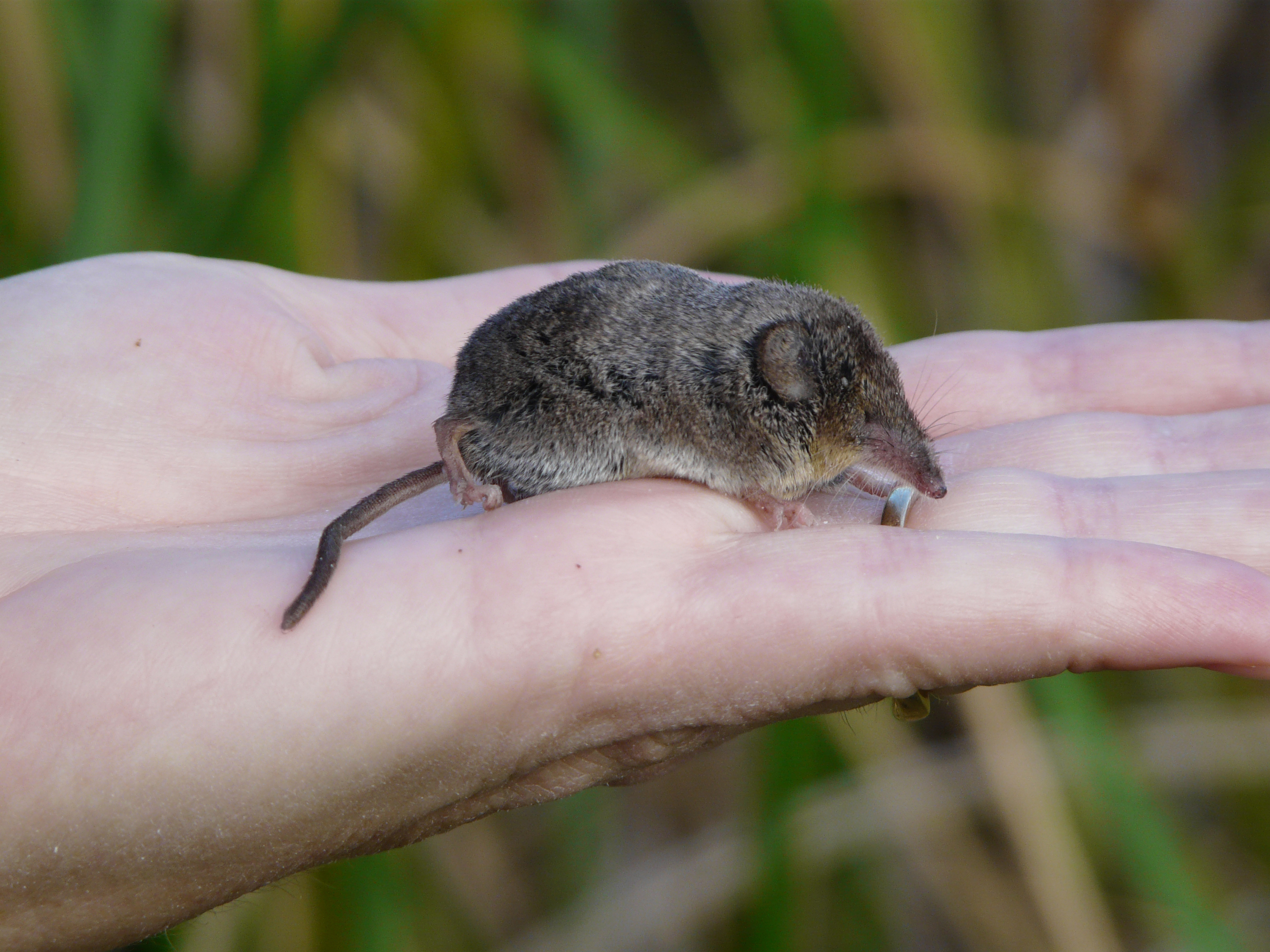 The Buena Vista Lake shrew (Sorex ornatus relictus) formerly occupied the marshlands of the San Joaquin Valley and the Tulare Basin. Its range has become much restricted due to the loss of lakes and sloughs in the area. It has been recorded from the Kern Lake Preserve area and the Kern National Wildlife Refuge in California. Current distribution is unknown but likely to be very restricted due to the loss of habitat. Photo Credit: CSU Stanislau